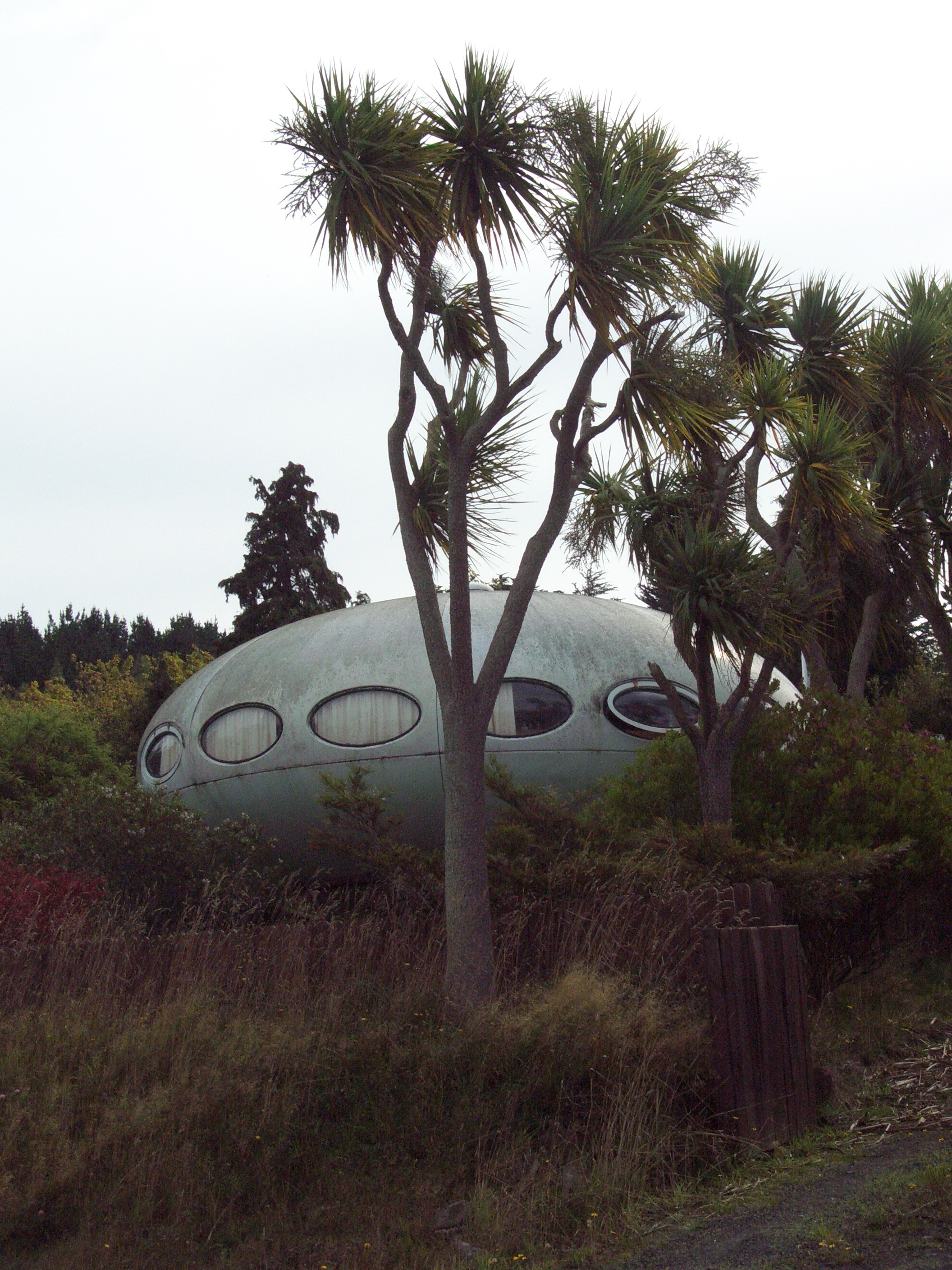 Futuro house in Warrington, New Zealand -45.710965, 170.589639